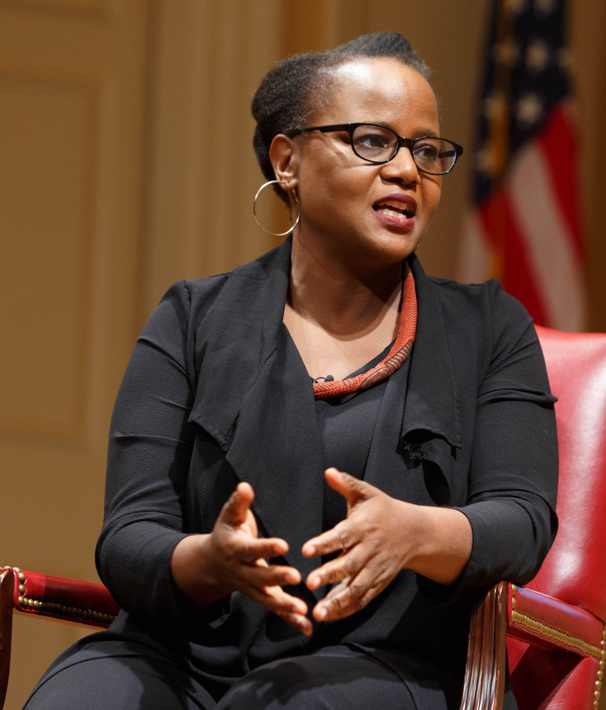 Edwidge Danticat speaks with Marie Arana during a "National Book Festival Presents" series event in the Coolidge Auditorium, September 24, 2019. Photo by Shawn Miller/Library of Congress. Note: Privacy and publicity rights for individuals depicted may apply.